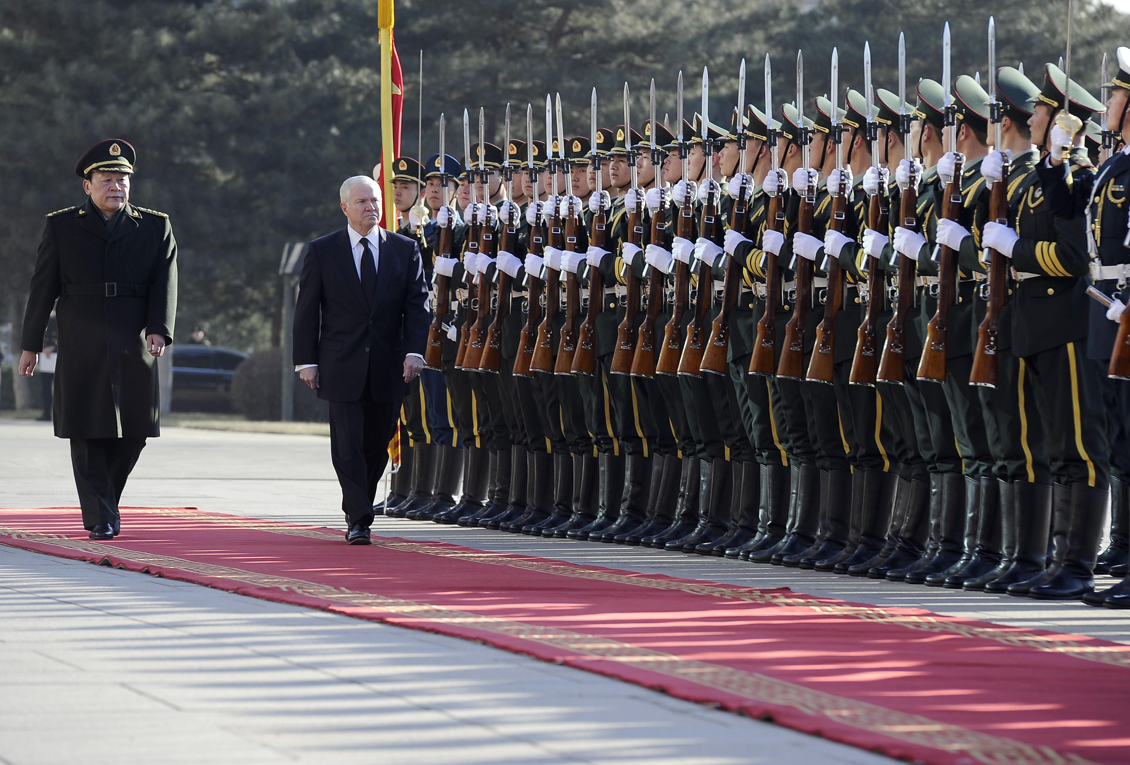 Chinese Defense Minister Liang Guanglie and U.S. Defense Secretary Robert M. Gates review the People's Liberation Army Honor Guard as part of an arrival ceremony honoring Gates' visit to the Bayi building in Beijing, Jan. 10, 2011. Gates met with Chinese Defense Minister Liang Guanglie and his staff at the ministry and held a press conference there.